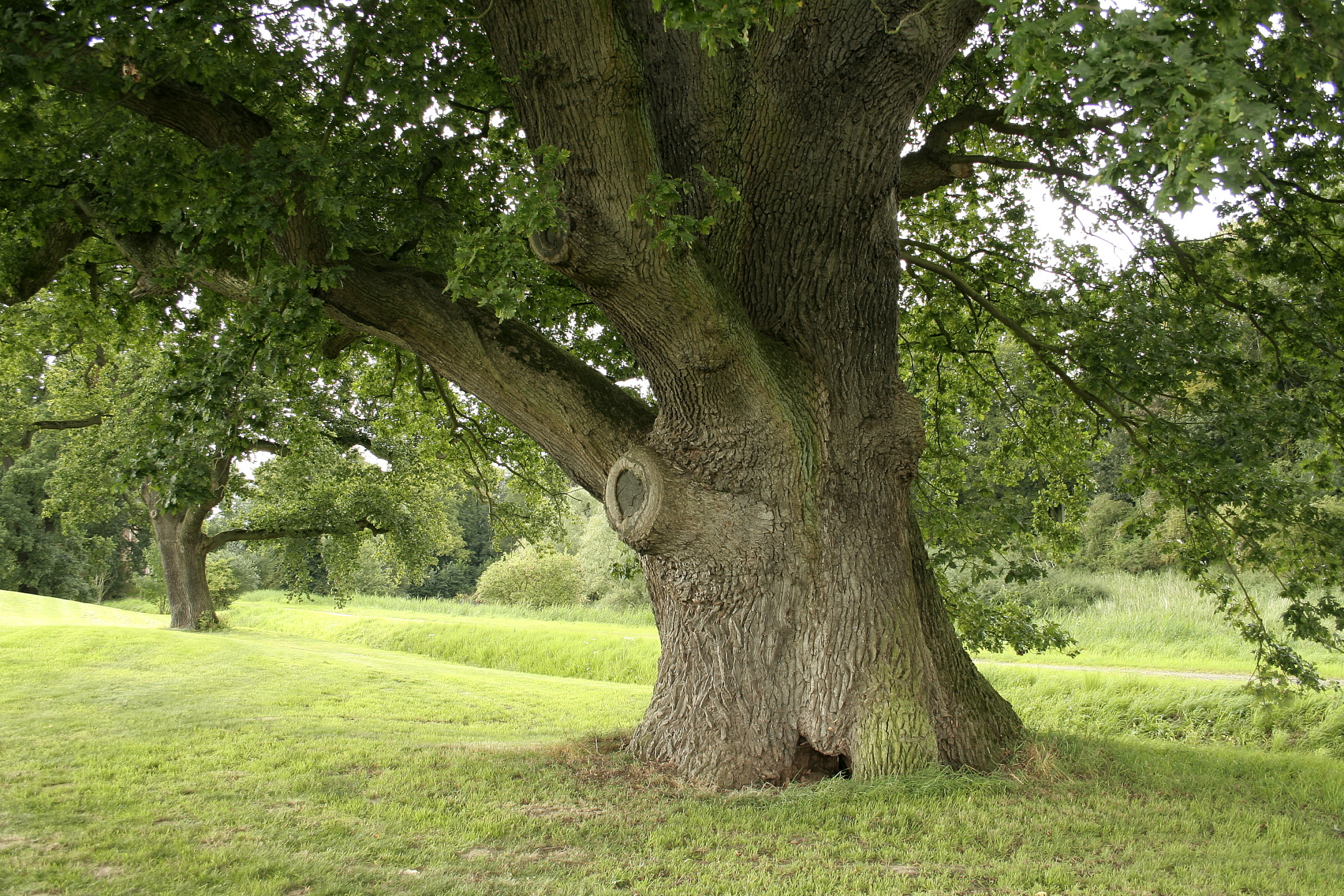 Pedunculate oak